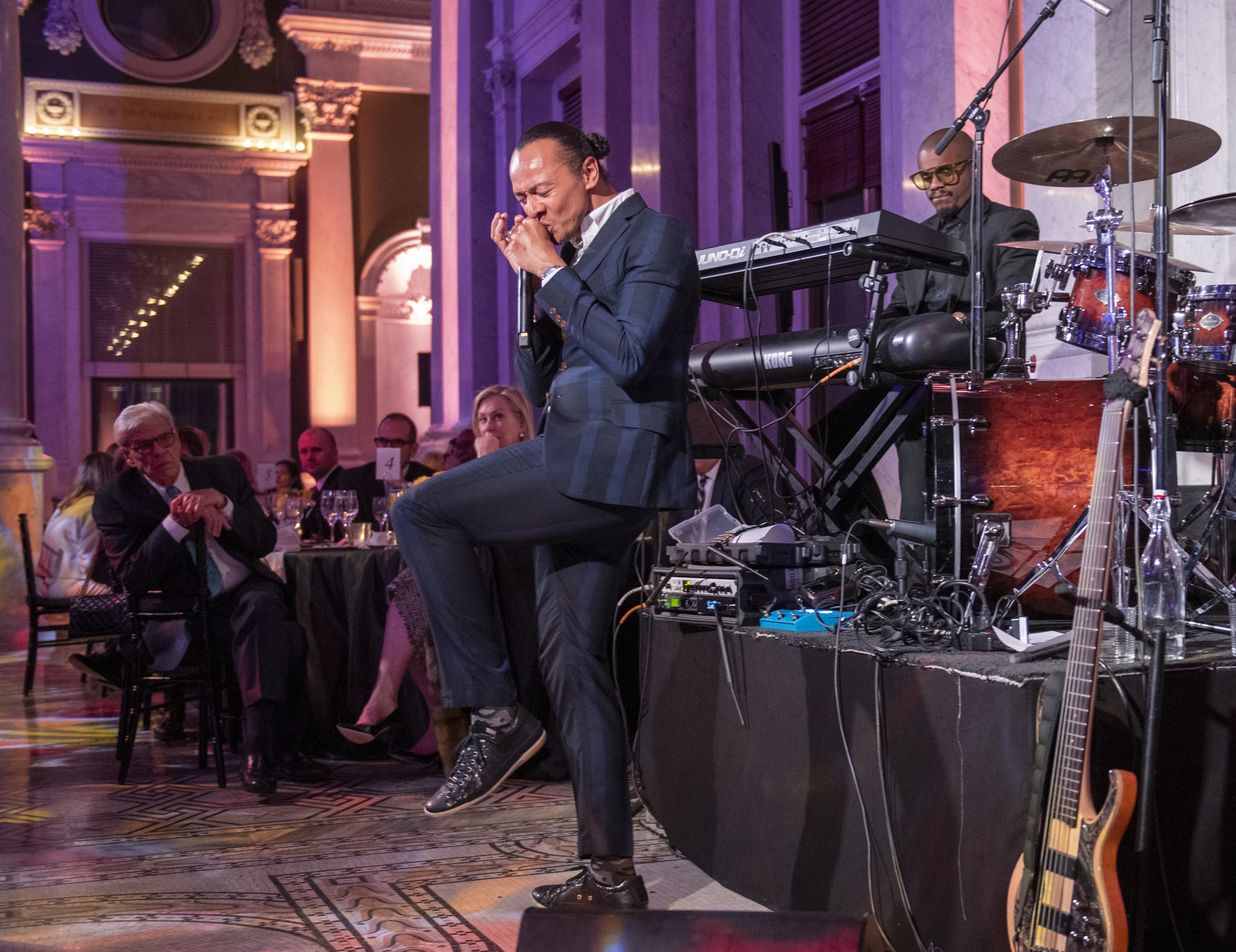 Harmonica virtuoso Frédéric Yonnet performs at a tribute to U.S. Supreme Court Justice Ruth Bader Ginsburg at the Library of Congress in Washington, D.C. on Jan. 30, 2020.